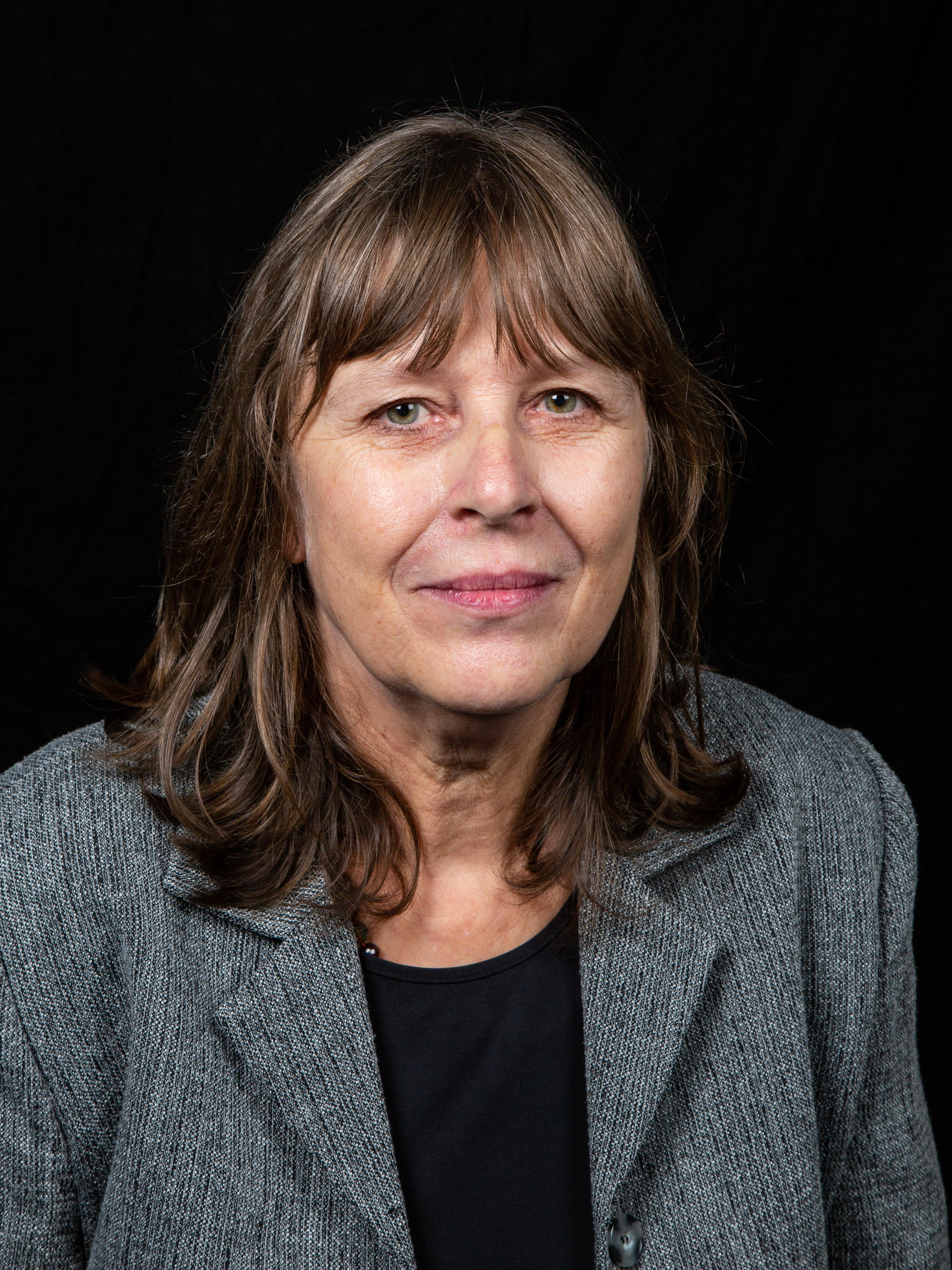 German publisher Barbara Kalender at the Frankfurt Book Fair 2018